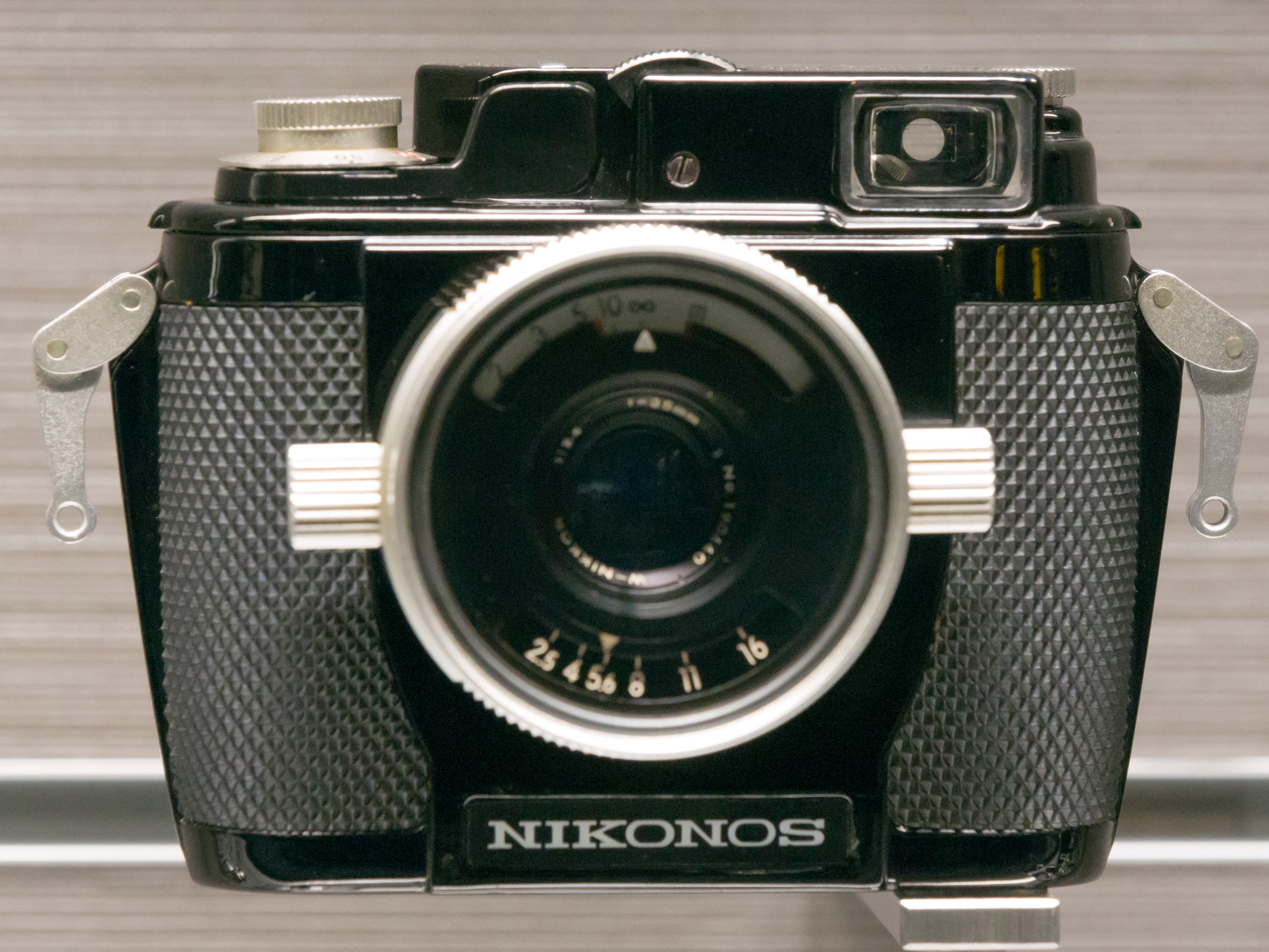 1963 Nikonos